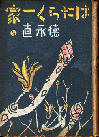 Cover of novel'Hataraku Ikka'